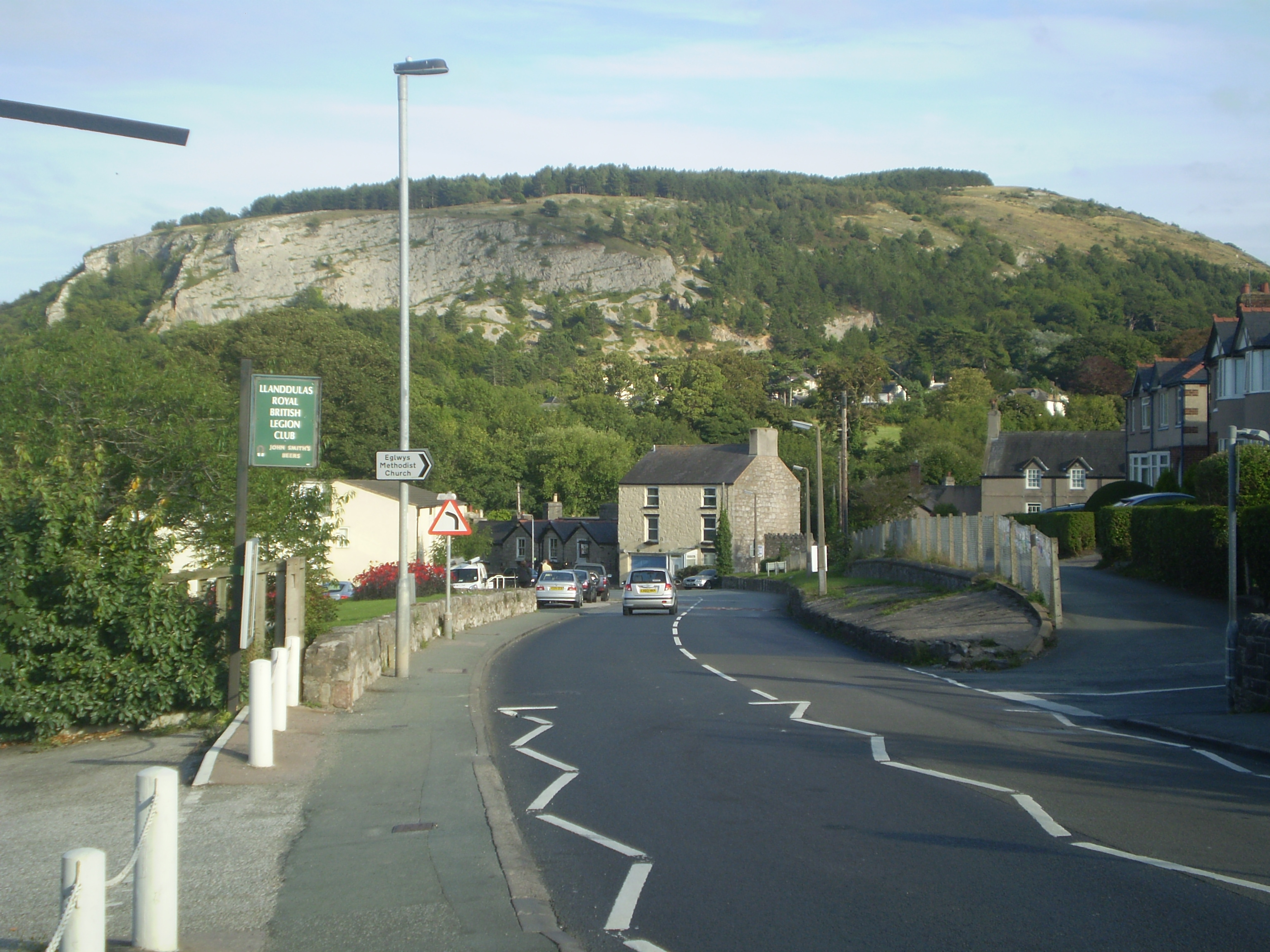 cefn-yr-ogof hill from llanddulas, north wales